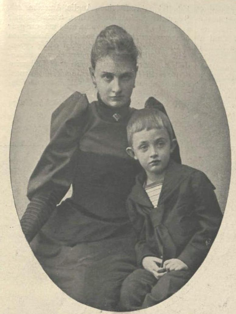 Princess Maria Josepha of Saxony and her son Karl I of Austria